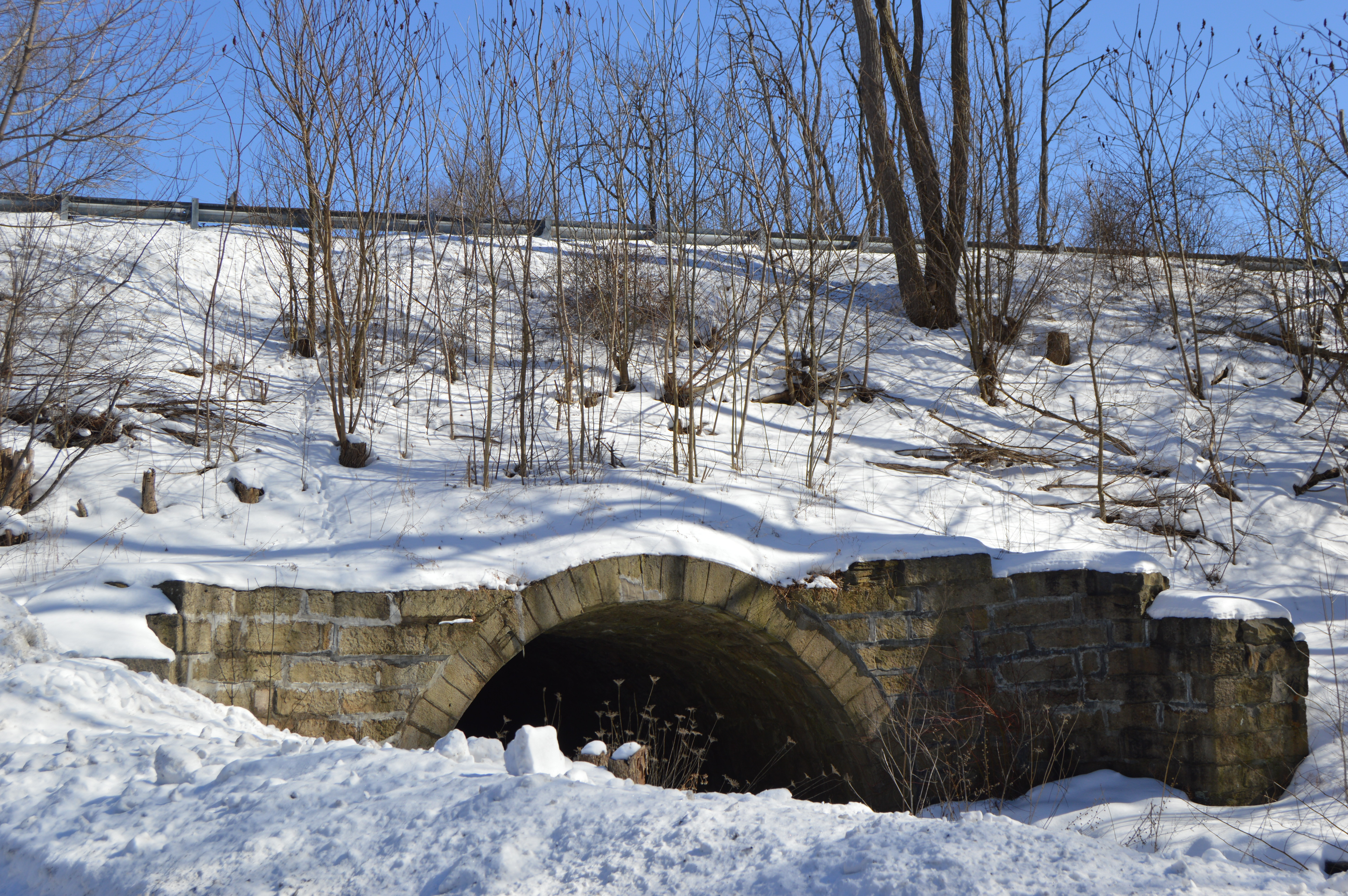 Western portal of the Bridge in Portage Township, which carries Pennsylvania Route 53 over Bens Creek near Oil City in Portage Township, Cambria County, Pennsylvania, United States. Built in 1832 for the Allegheny Portage Railroad, this circular stone arch bridge is listed on the National Register of Historic Places.